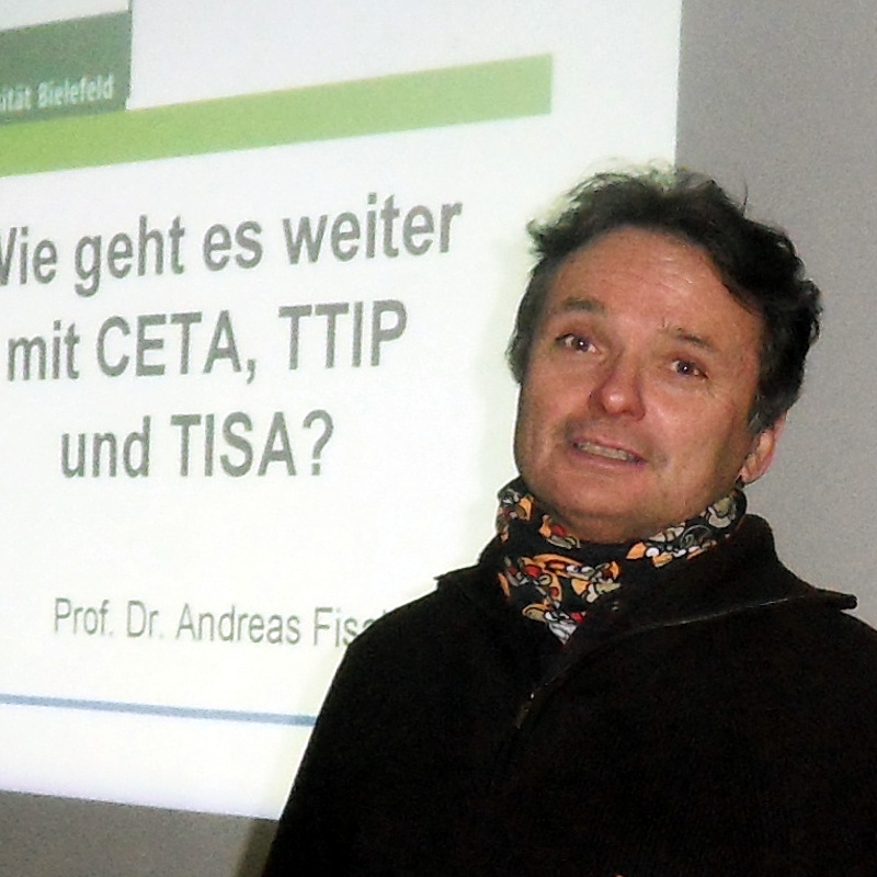 Andreas Fisahn